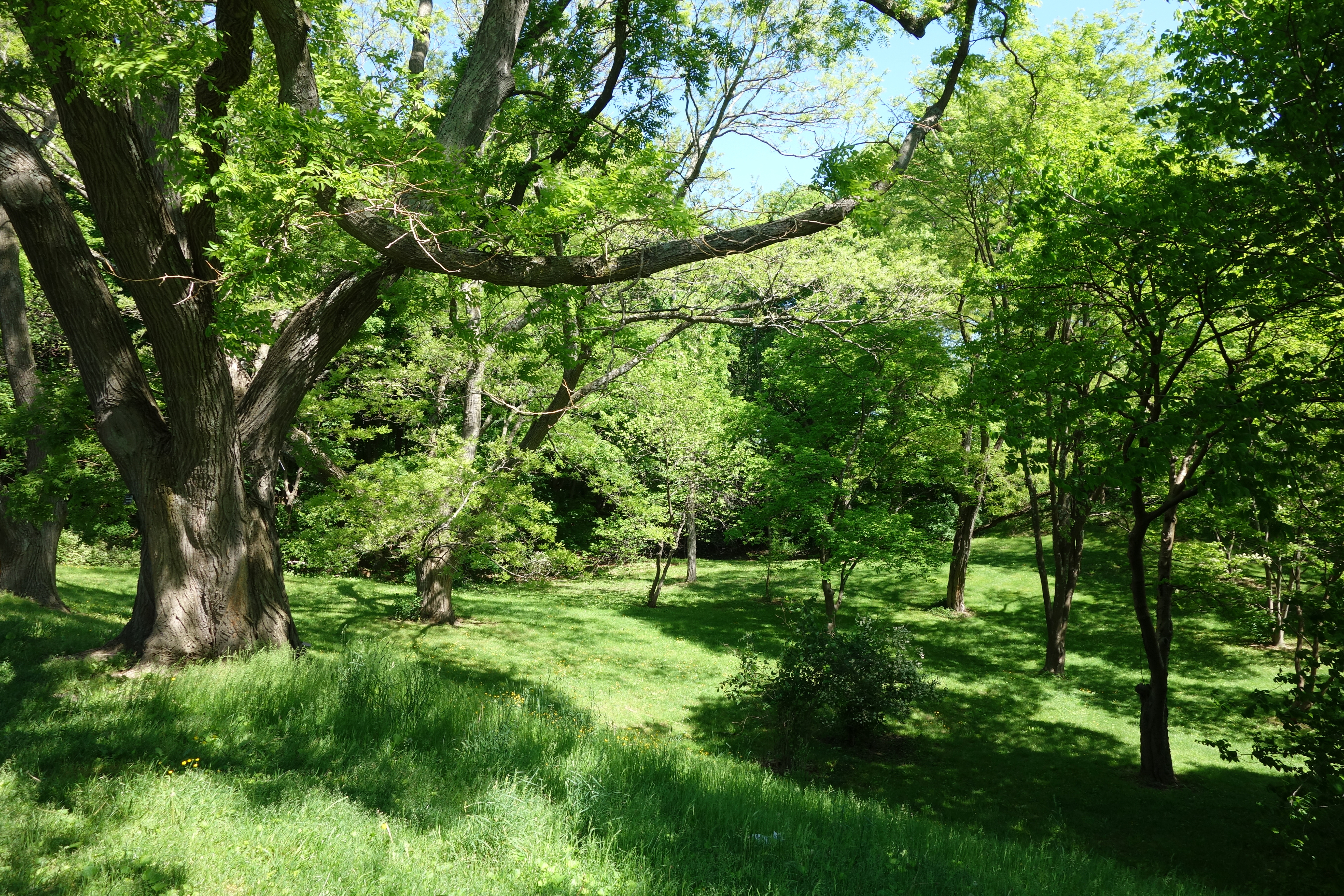 General view - Arnold Arboretum, Jamaica Plain, Boston, Massachusetts, USA.